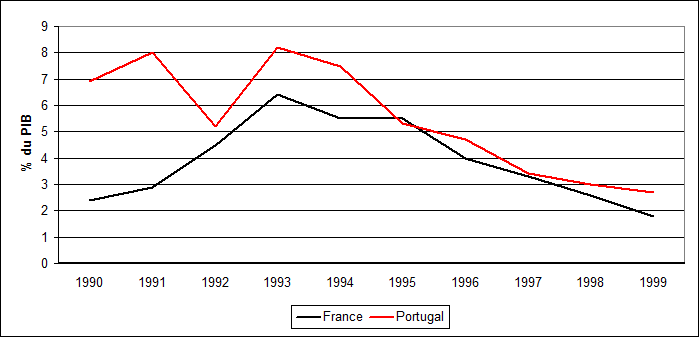 Budget deficit in France and Portugal in the 1990's. Data: FMI